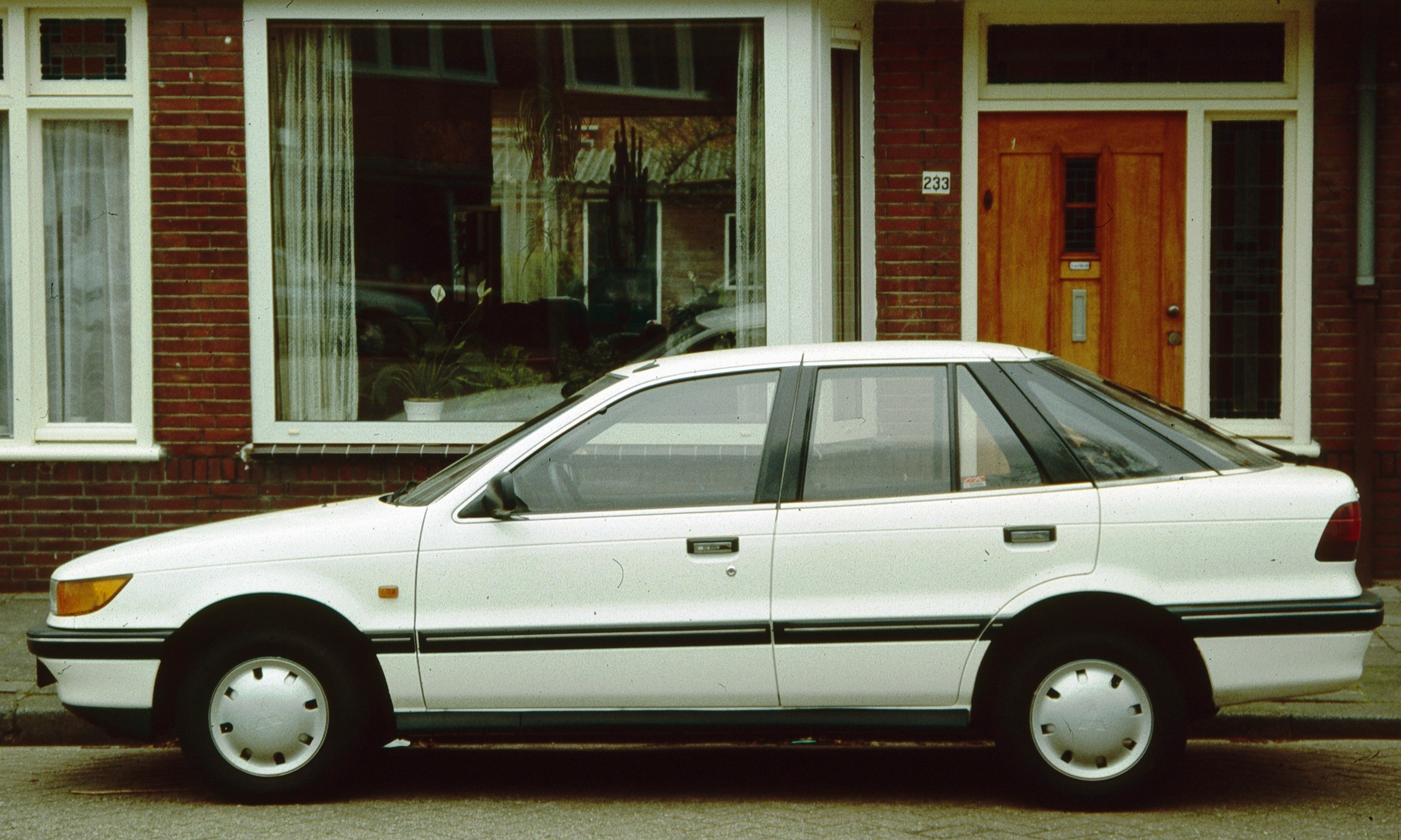 Mitsubishi Colt; Mitsubishi Lancer 1988 - 1992